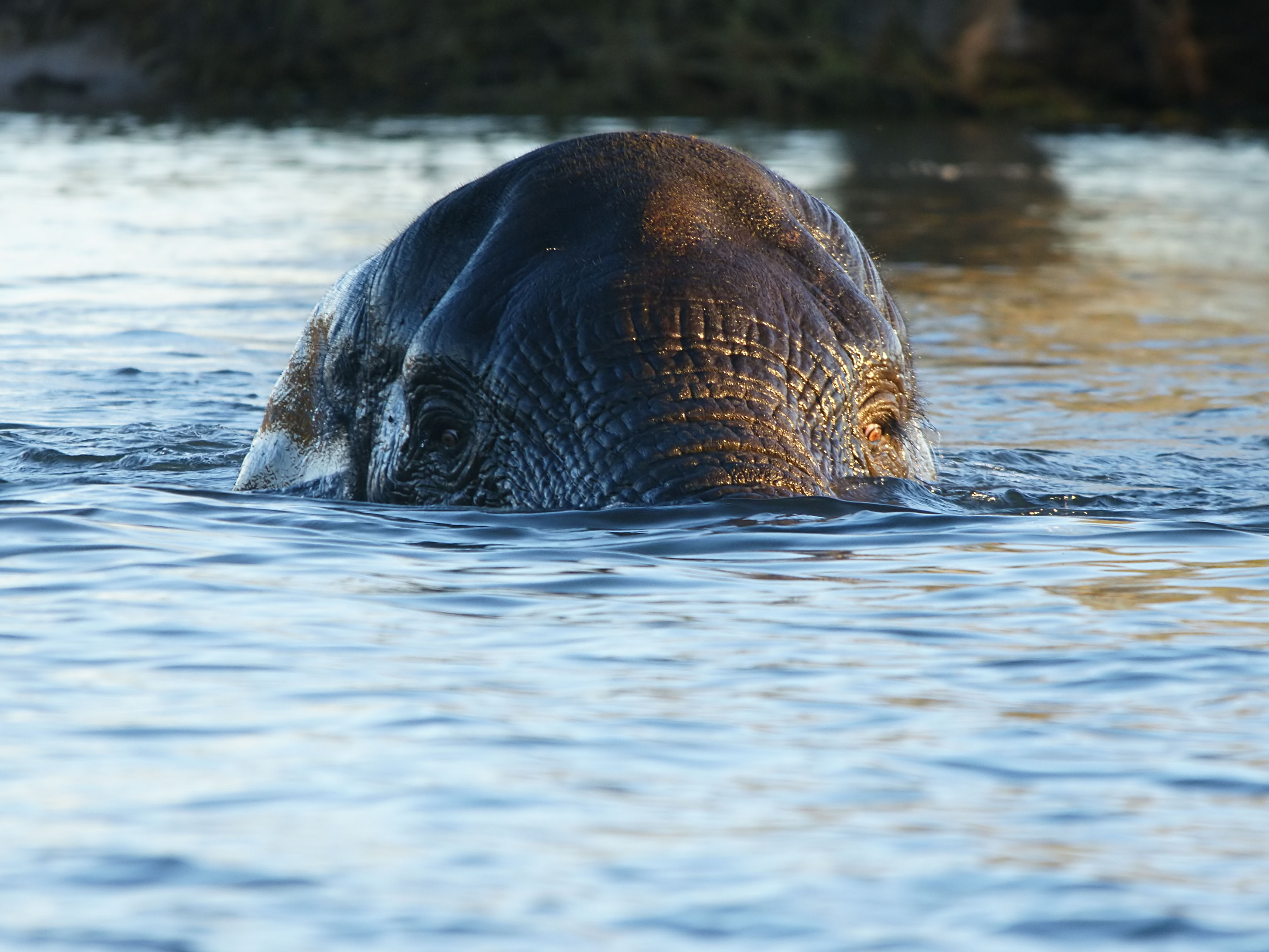 Elephant crossing the Zambezi near Mosi-oa-Tunya National Park, Livingstone, Zambia.